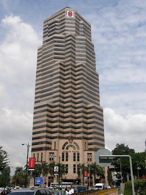 Menara Public Bank